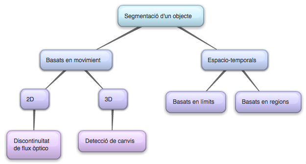 Esquema de les diferents tècniques de segmentació.